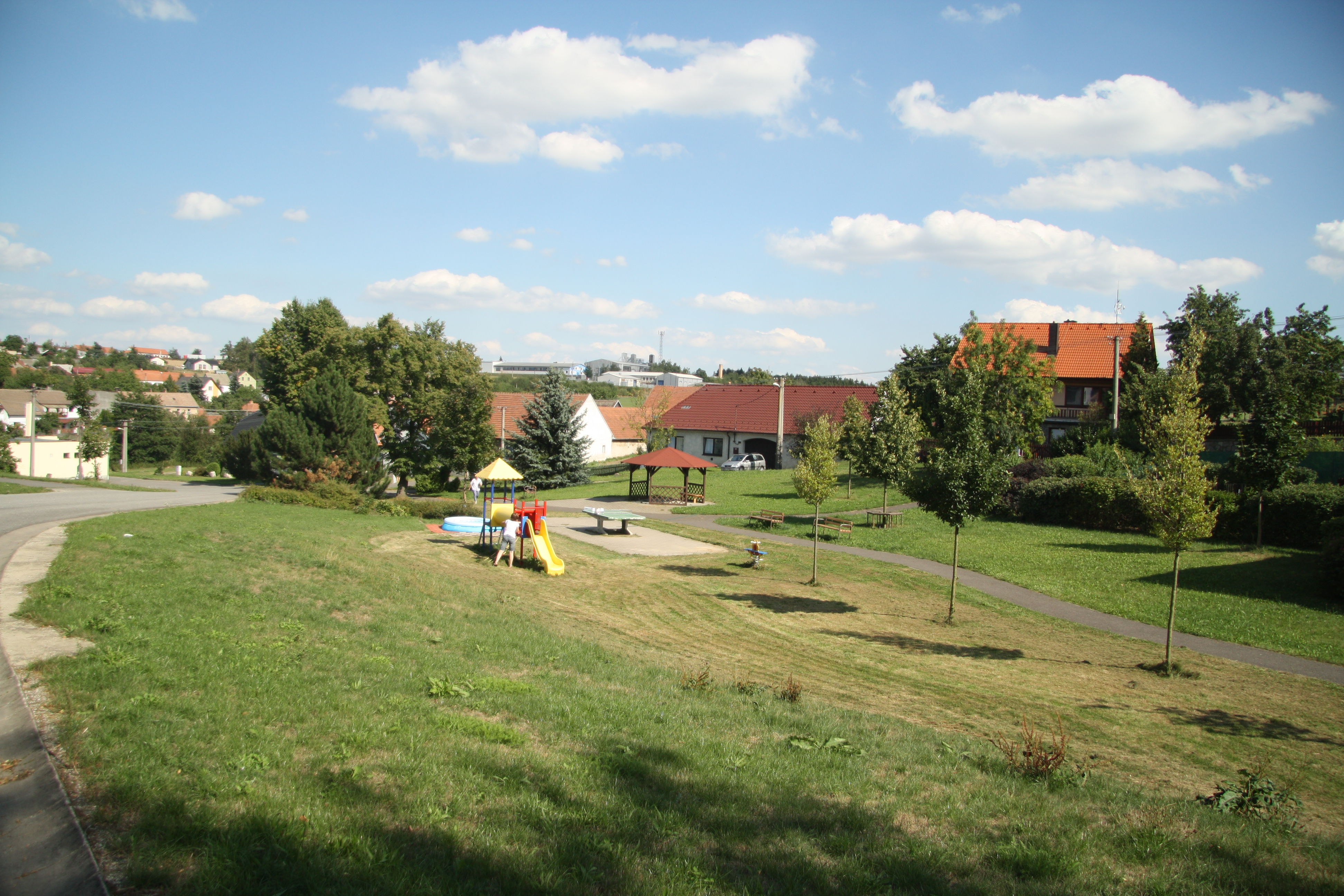 Center of Záblatí, Žďár nad Sázavou District.